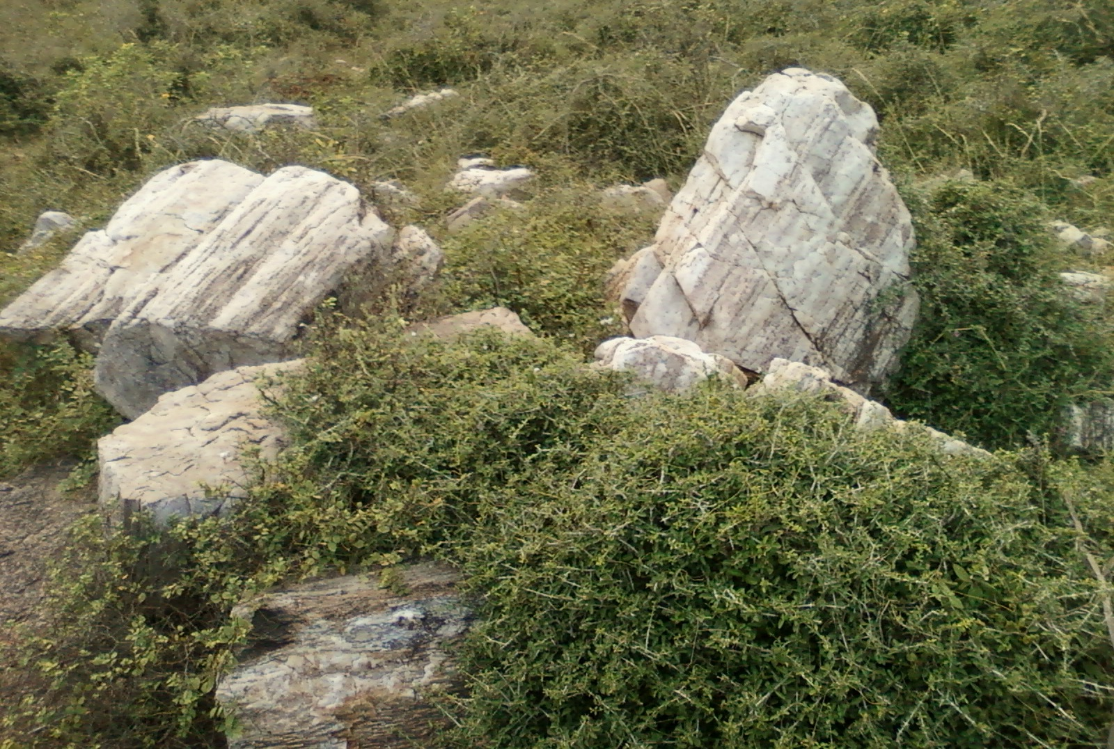 Quartzite rocks at a hillock near Anandapuram, Visakhapatnam District